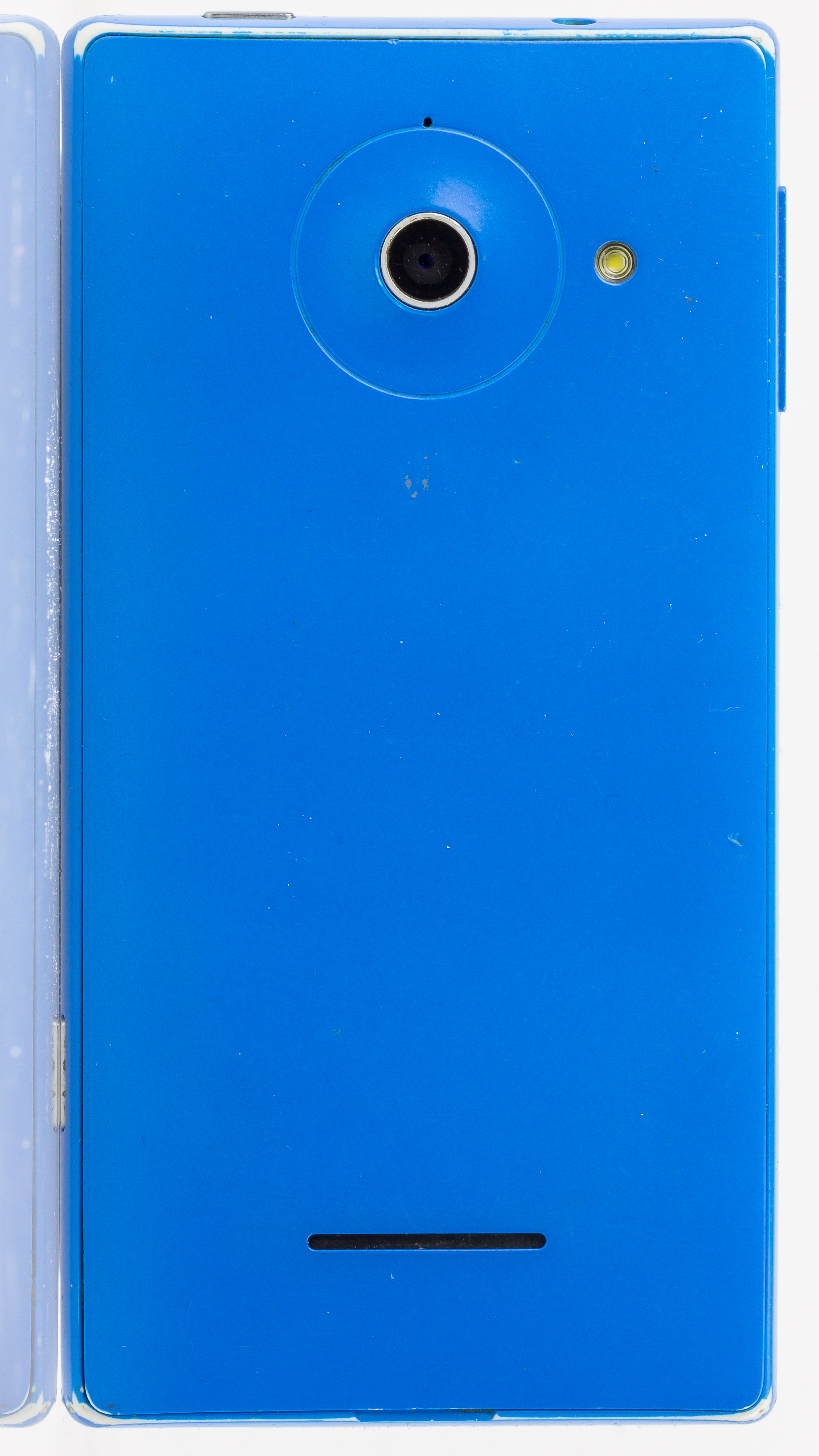 Huawei W1-U00